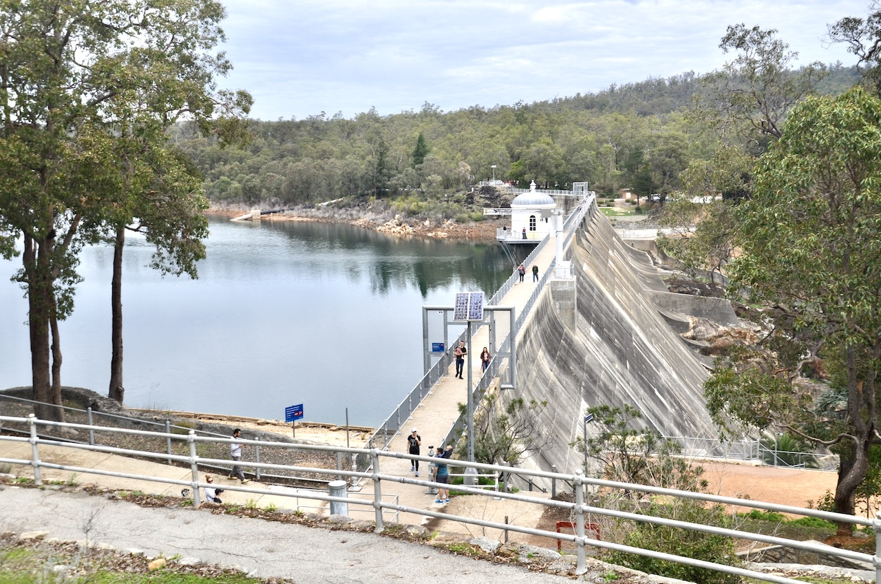 Mundaring dam top from the North